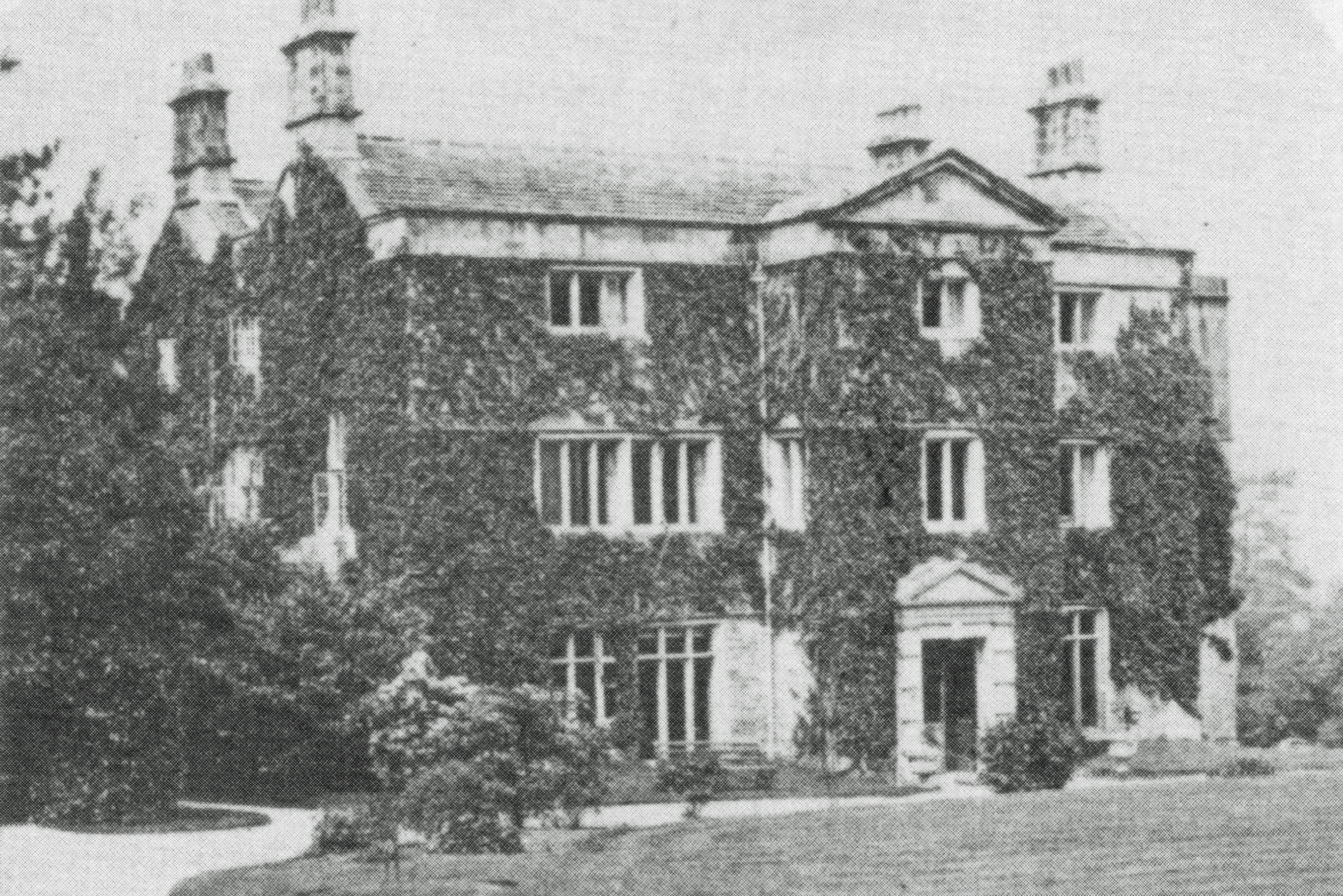 Whiteley Wood Hall in Sheffield, England photographed in the 1870s. The hall was demolished in 1958. Link Whiteley Wood Hall